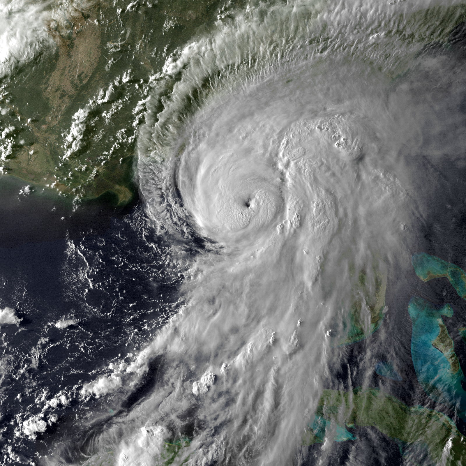 Satellite image of Hurricane Hermine nearing landfall on September 1, 2016, in the Gulf of Mexico.